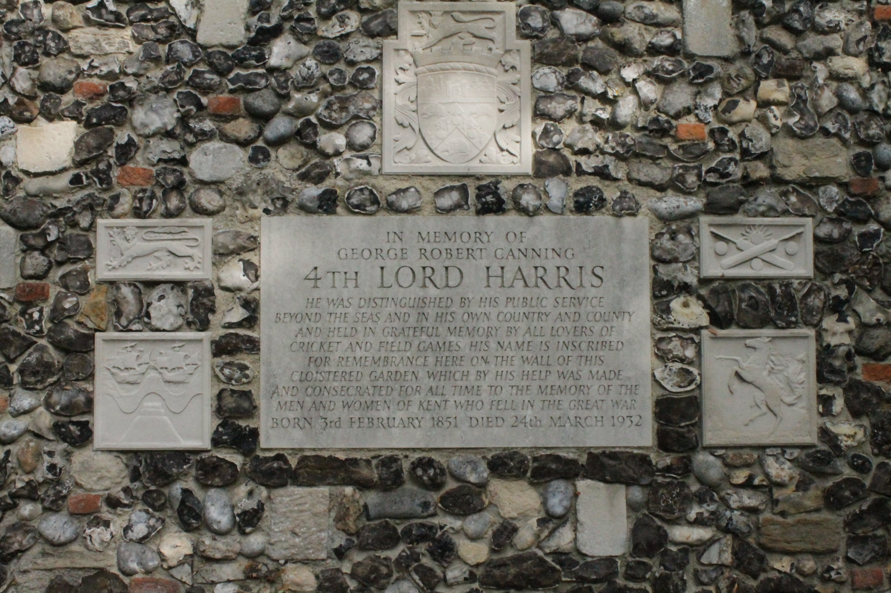 Memorial to George Robert Canning Harris, Canterbury